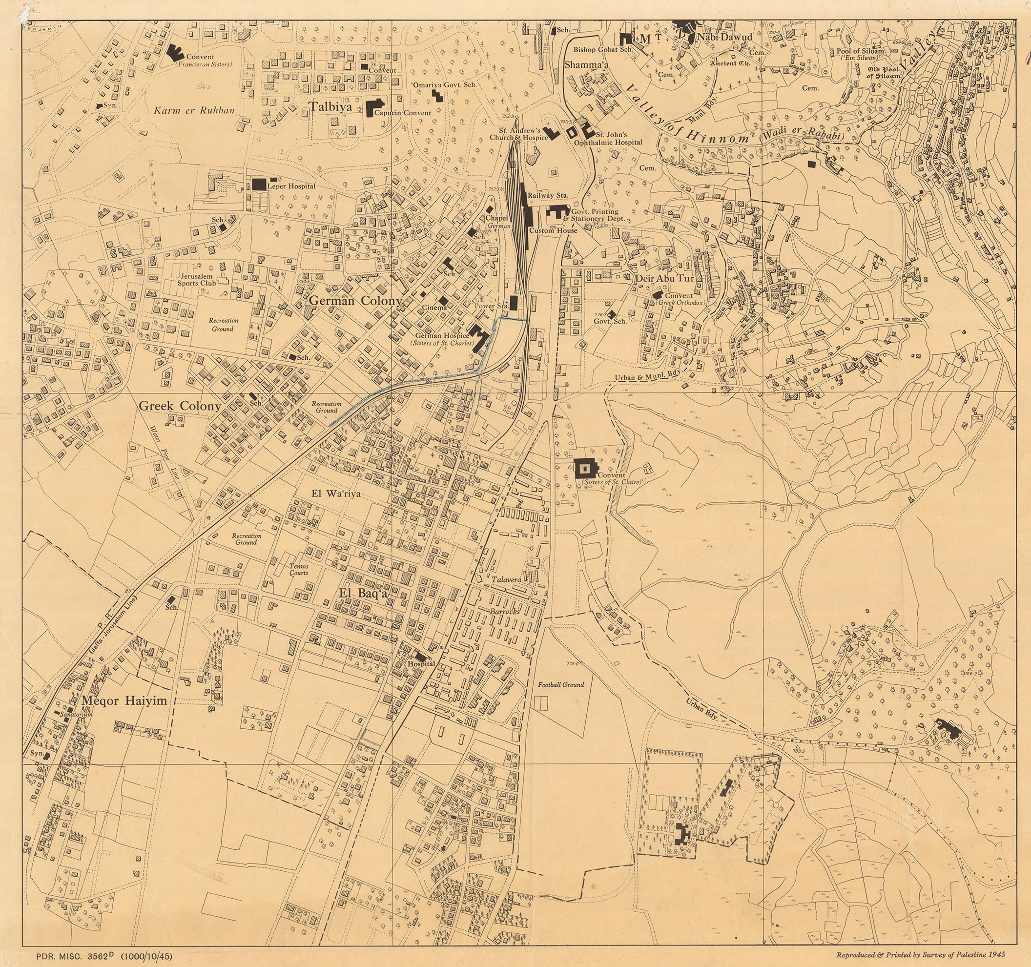 A detailed and accurate measurment map of Jerusalem, produced by the Survey of Palestine, 1945. Scale 1:5,000.